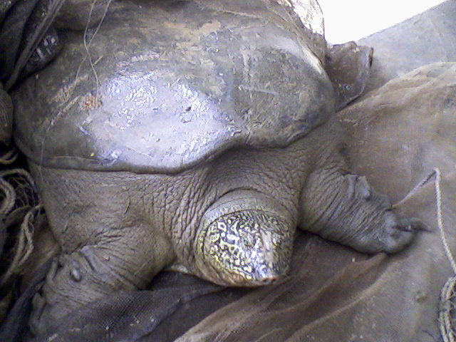 A member of rafetus caught in Đồng Mô Lake, Hà Nội, Việt Nam.